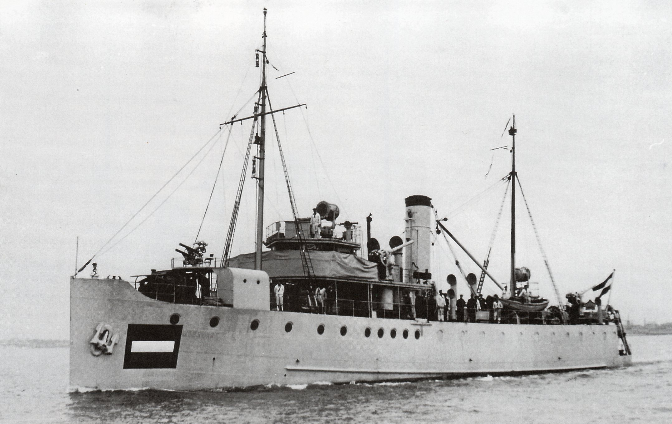 Dutch Douwe Aukesclass minelayer Van Meerlant during the interwar period.